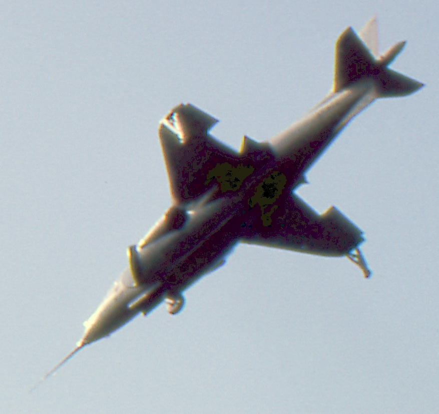 Hawker P.1127 at the SBAC show for the first time, Farnborough 8 September 1962: third prototype XP972